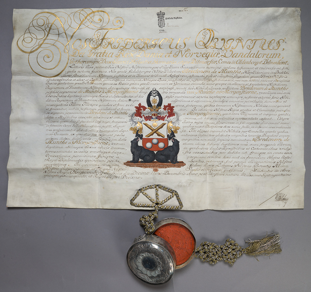 Letter patent given to Bredo Munthe, thereafter Bredo von Munthe af Morgenstierne, in 1755. Official/governmental document.